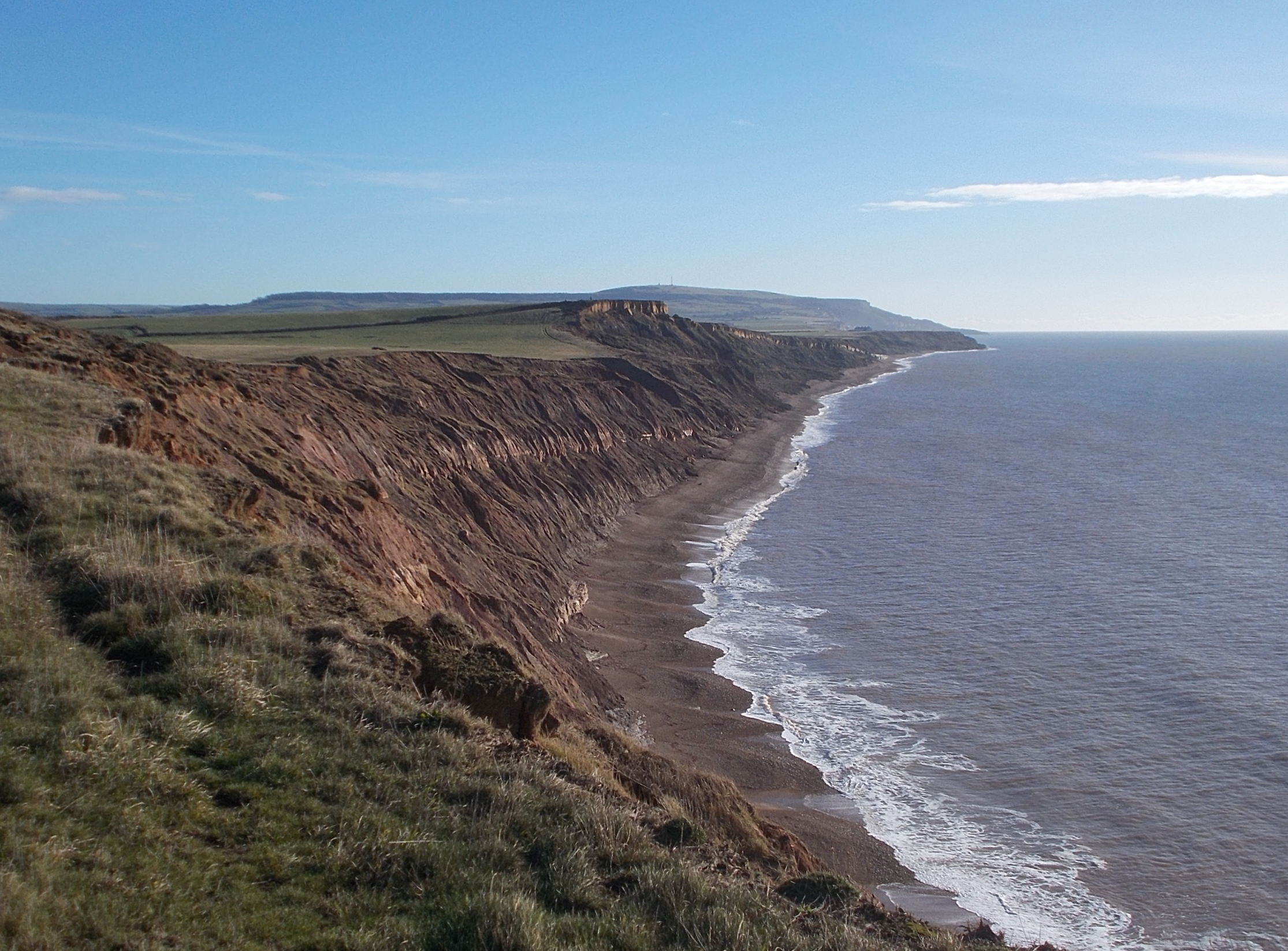 Brighstone Bay, Isle of Wight, UK. Looking south east towards Atherfield Point.